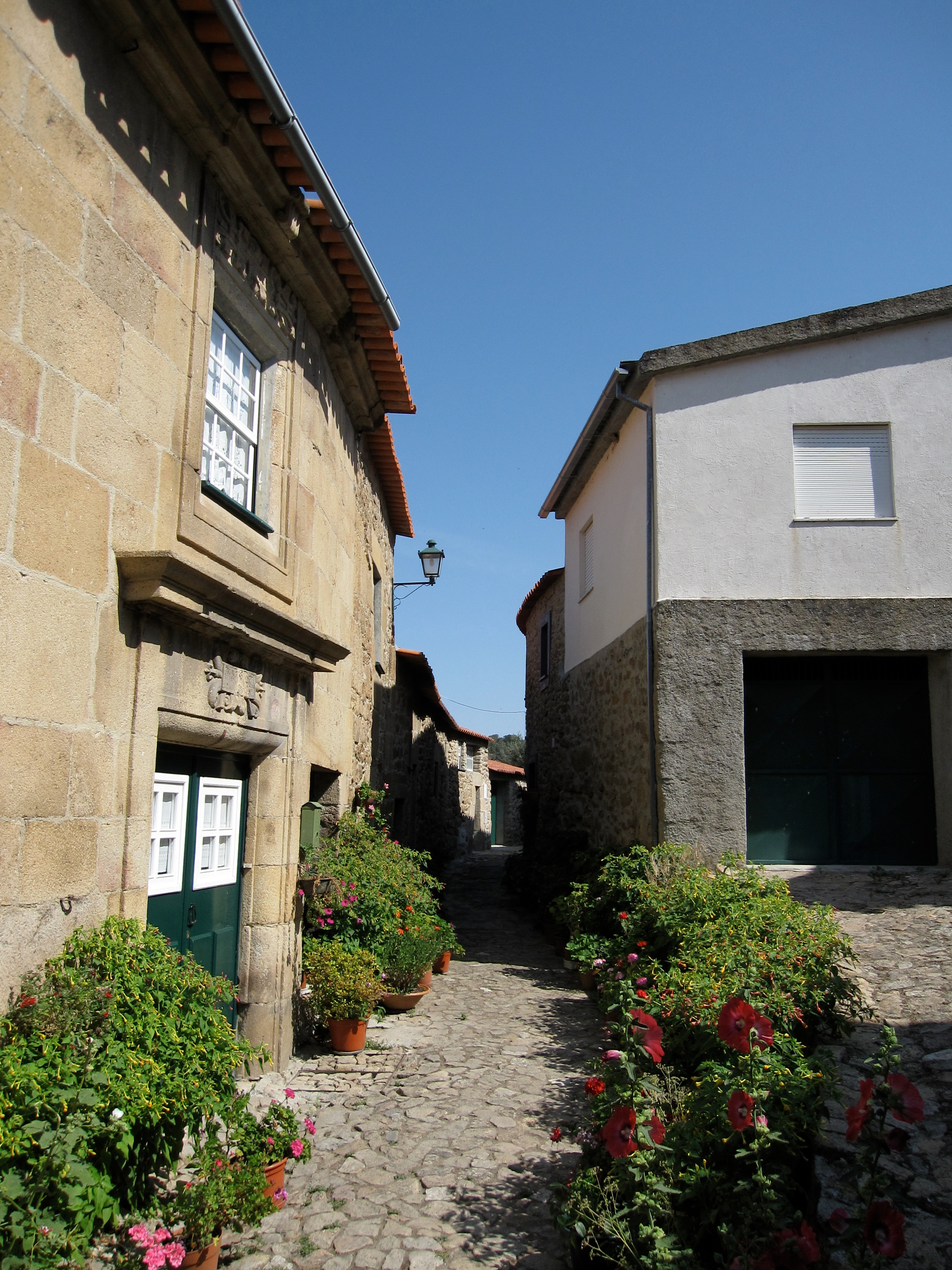 This file was uploaded for Wiki Loves Monuments in Portugal with the unique identifier 97001579.